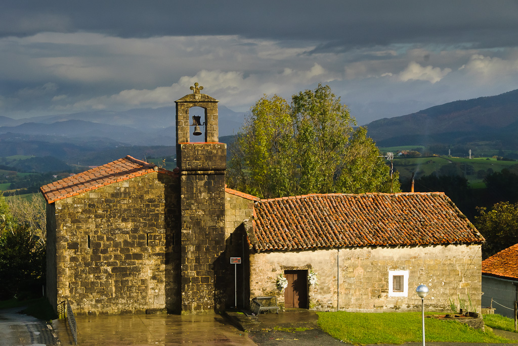 Elkano, Zarautz (Euskal Herria, Basque Country)